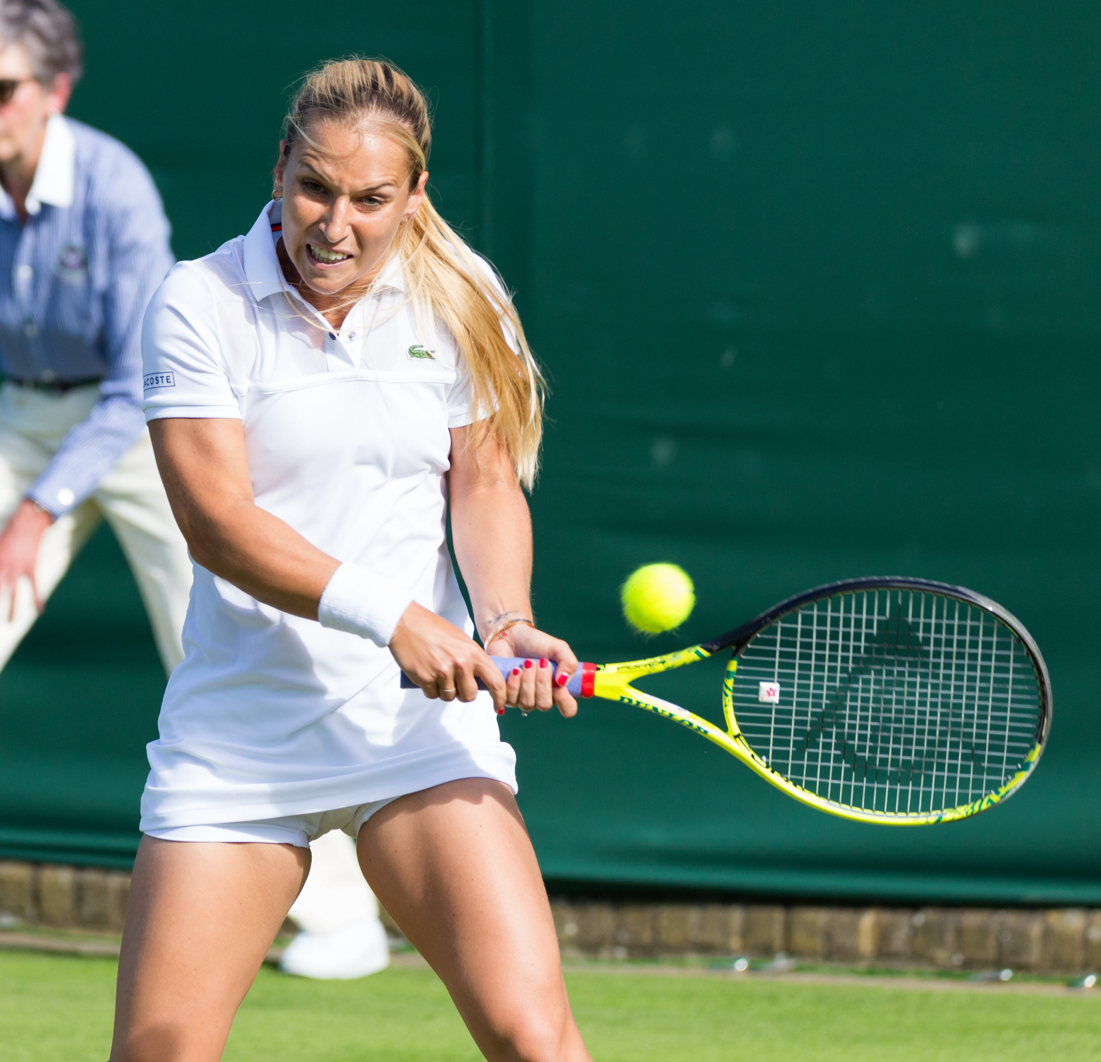 Dominika Cibulková competing in the first round of the 2015 Wimbledon Championships.